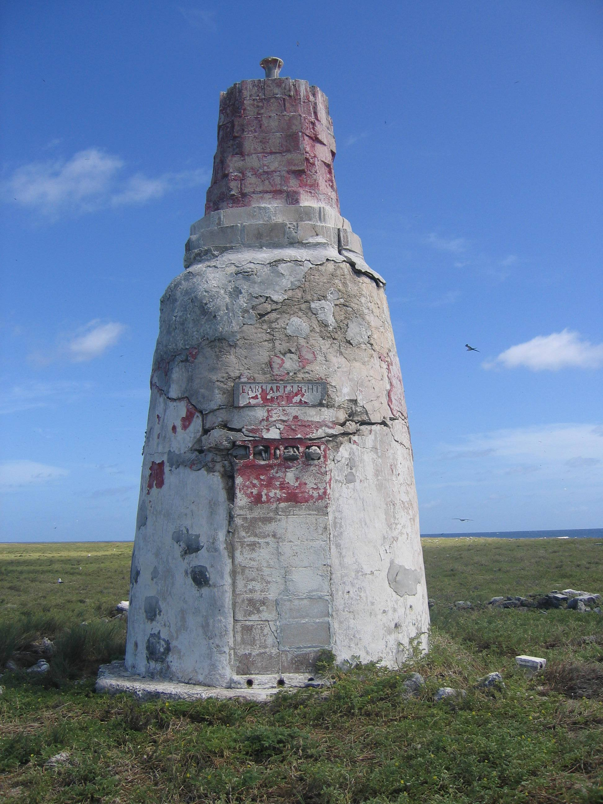 Day beacon "Earhart Light" on Howland Island in the Pacific Ocean